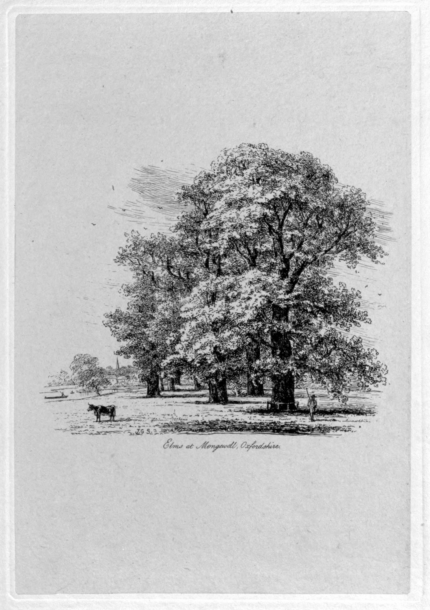 engraving by Jacob George Strutt from Sylva Britannica, or, Portraits of forest trees, distinguished for their antiquity, magnitude, or beauty, 1830 edition